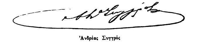 Poikilē stoa: ethnikē eikonographēnenē epetēris ... Etos 1-16, 1881-1914 (1894) Author: Ioannes A. Arsenēs , Michael A . Raphaelobits Volume: 10 Publisher: Estia Year: 1894 Possible copyright status: NOT_IN_COPYRIGHT Language: Greek Digitizing sponsor: Google Book from the collections of: Harvard University Collection: americana